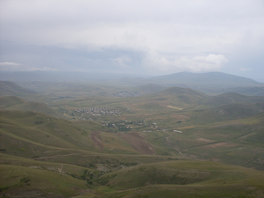 Arpeni - 2255m.